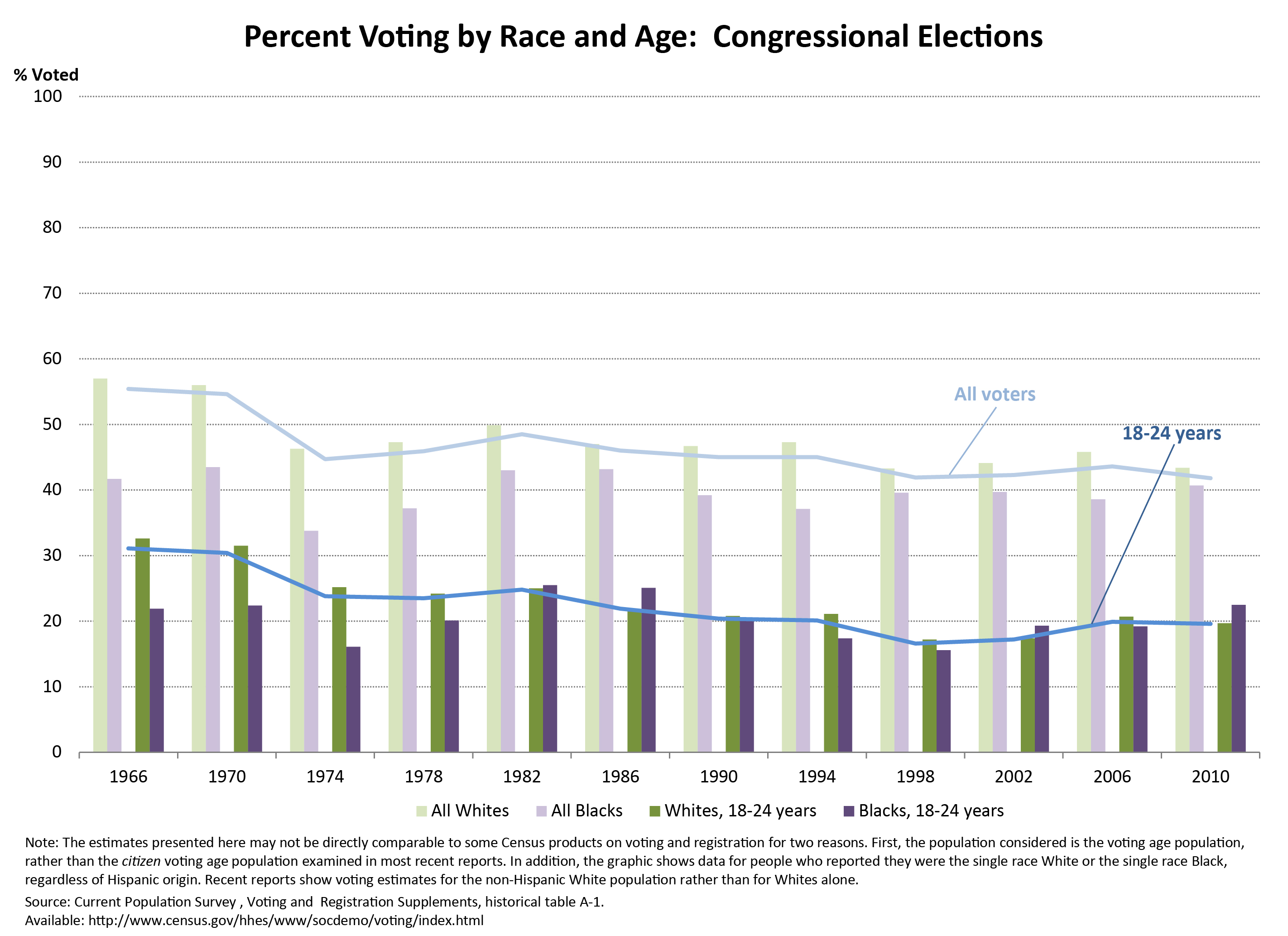 Percents of voter turnout by race and age for Congressional elections since 1964